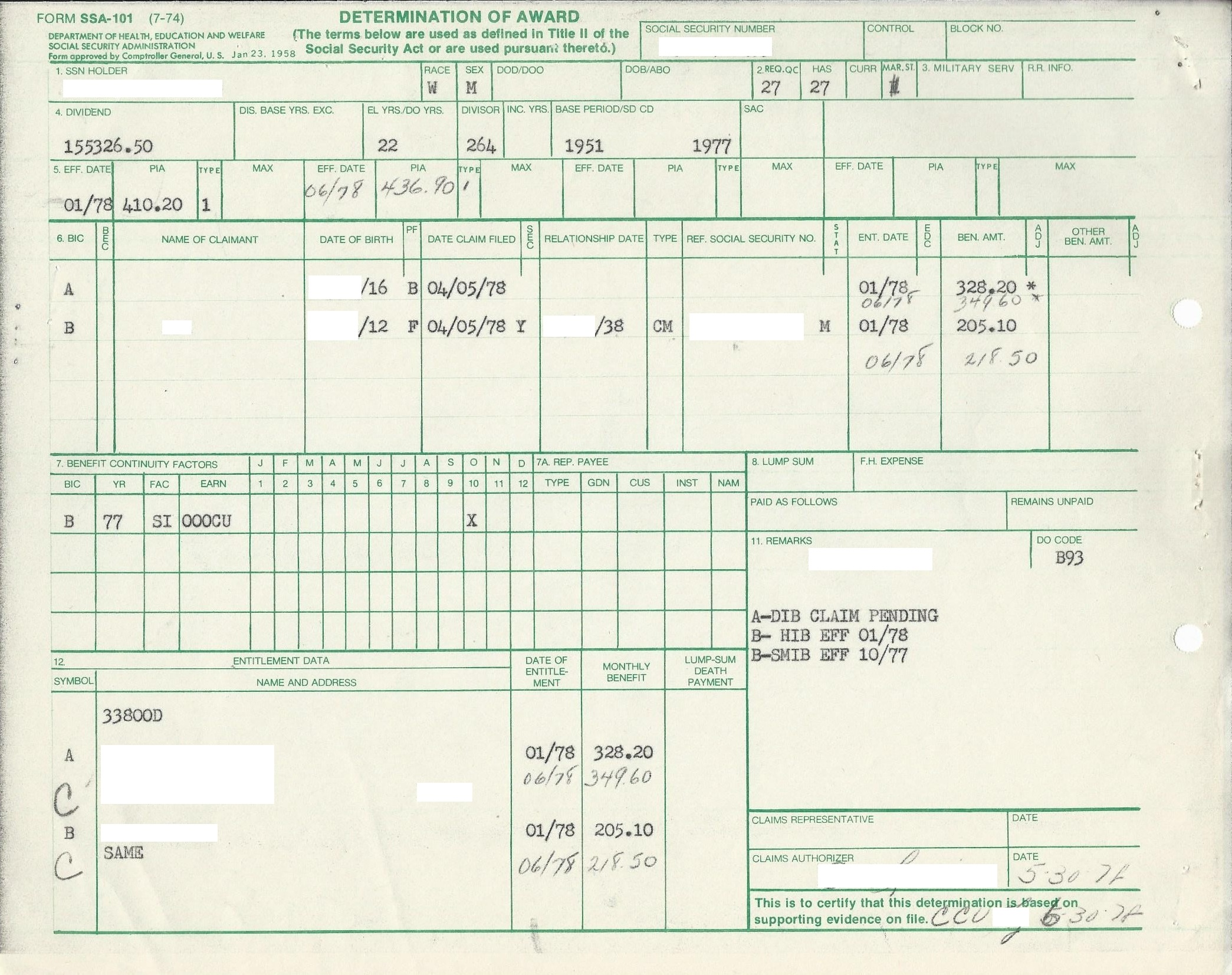 A filled-out Form SSA-101 from 1978. Titled the Determination of Award, it was the central internal form used by Claims Authorizers in the U.S. Social Security Administration to process initial entitlement to Social Security benefits.